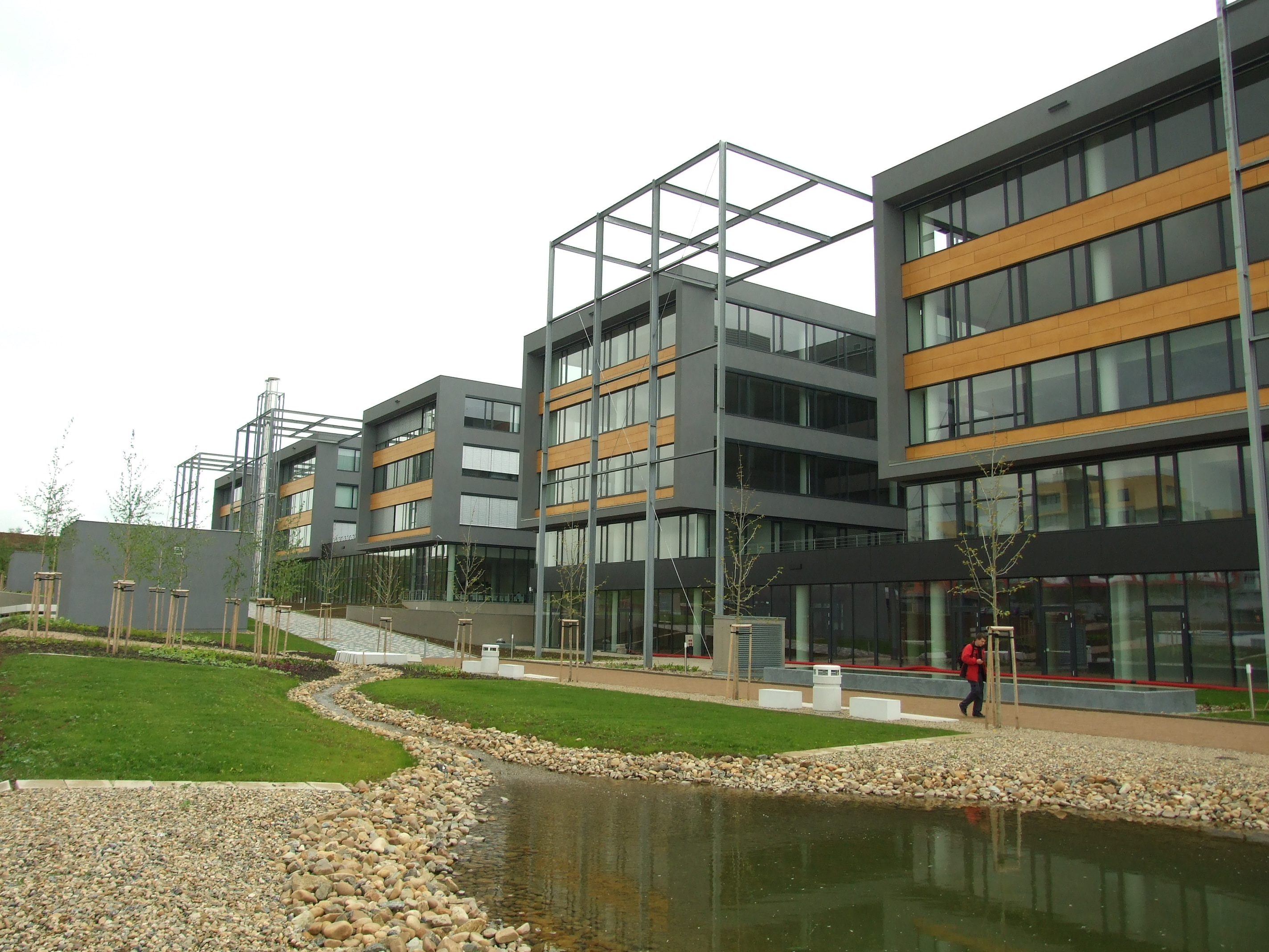 So-called "Západní město" (Western City) under construction in Prague-Stodůlky. New apartments and offices are situated in a place where large socialist-style apartments were planned in 1980's. Part of the construction works of this new "city" is also completation of abandoned western Stodůlky metro station exit.